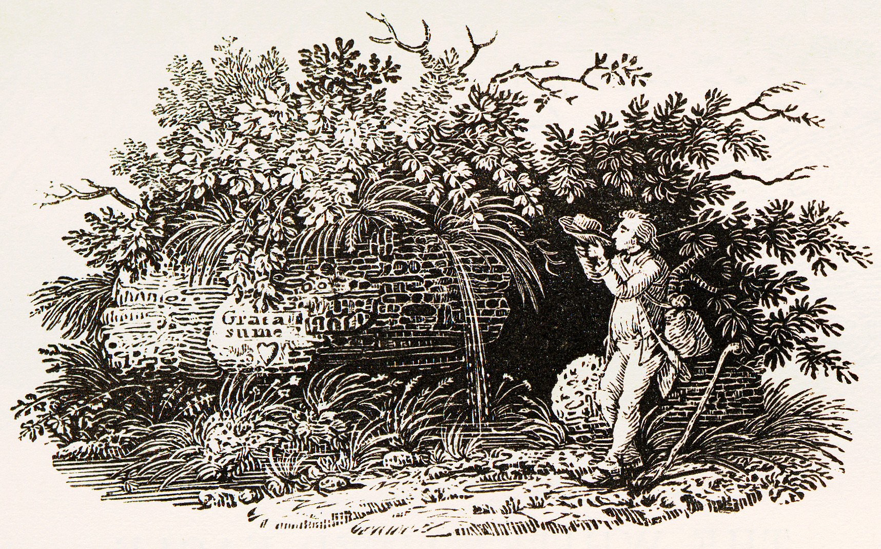 Tail-piece apparently of Thomas Bewick himself as a thirsty traveller drinking from his hat, drawn and engraved by Bewick. The inscription "Grata Sume" means "Take Welcome"